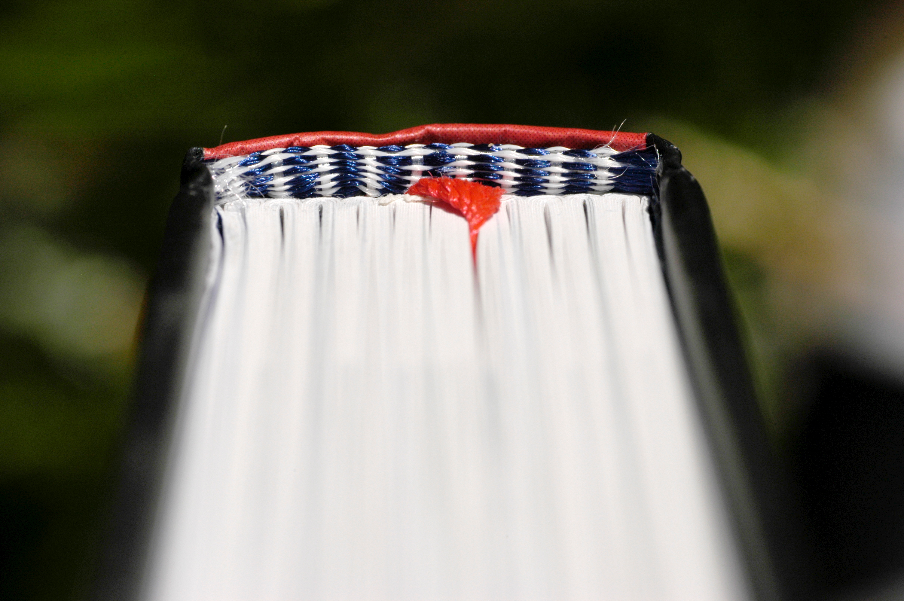 Headband on a Book